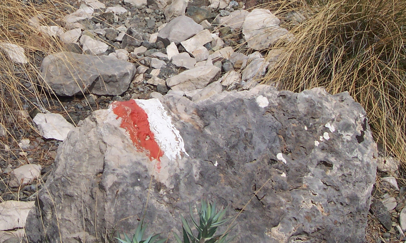 One of the many painted waypoints which appear along the Lycian Way in Sourthern Turkey